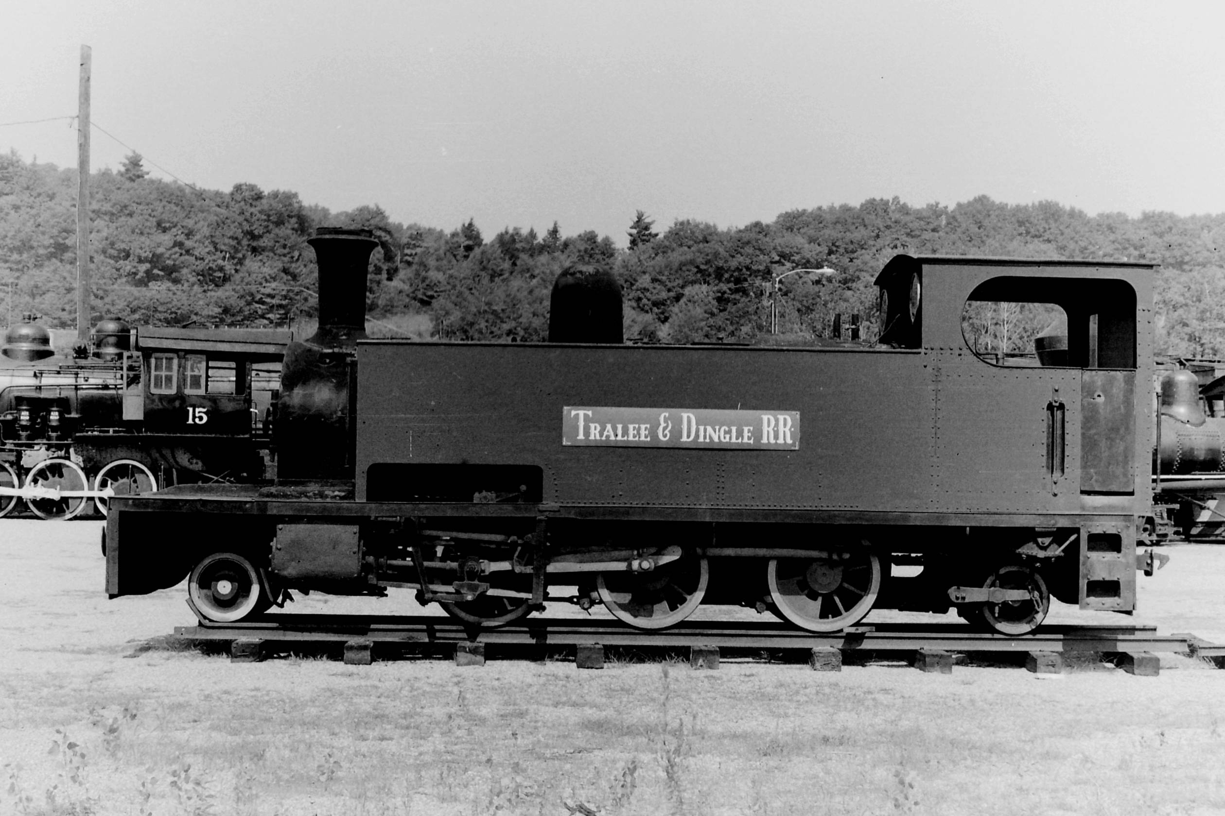 Tralee & Dingle Railway (but note "R.R." painted on side tank!) 2-6-2T No.5, Hunslet works No.626, at Steamtown, Bellows Falls, Vermont 8/70.